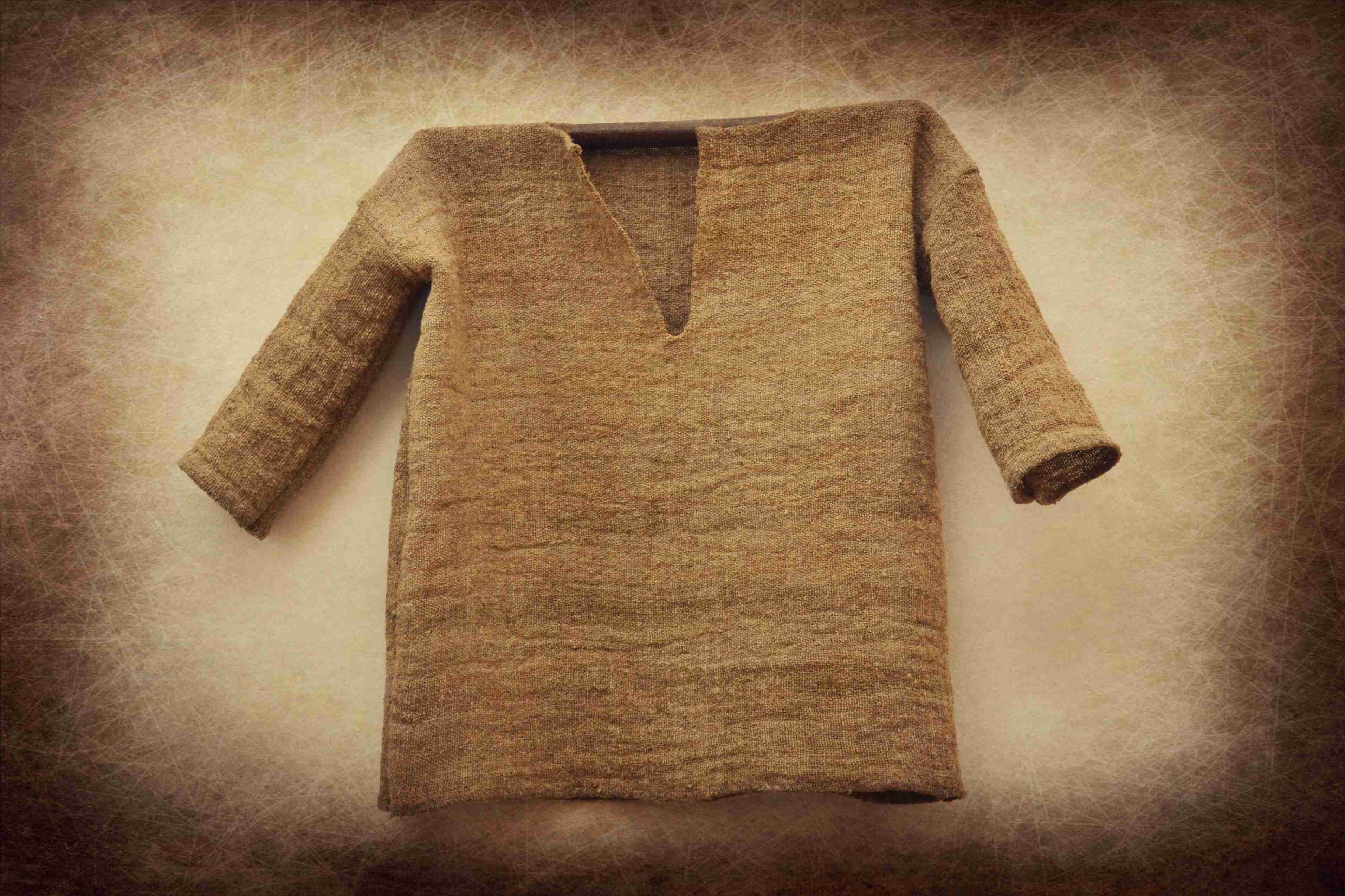 Magical shirt from nettles, Muzeum Novojičínska, p.o.